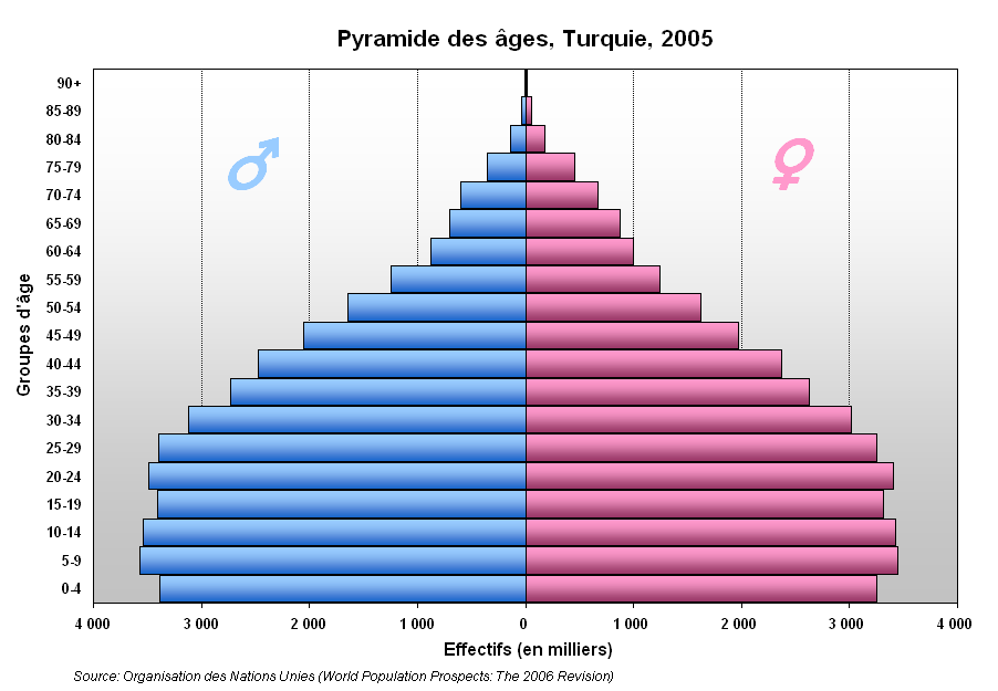 Turkey Population pyramid, 2005